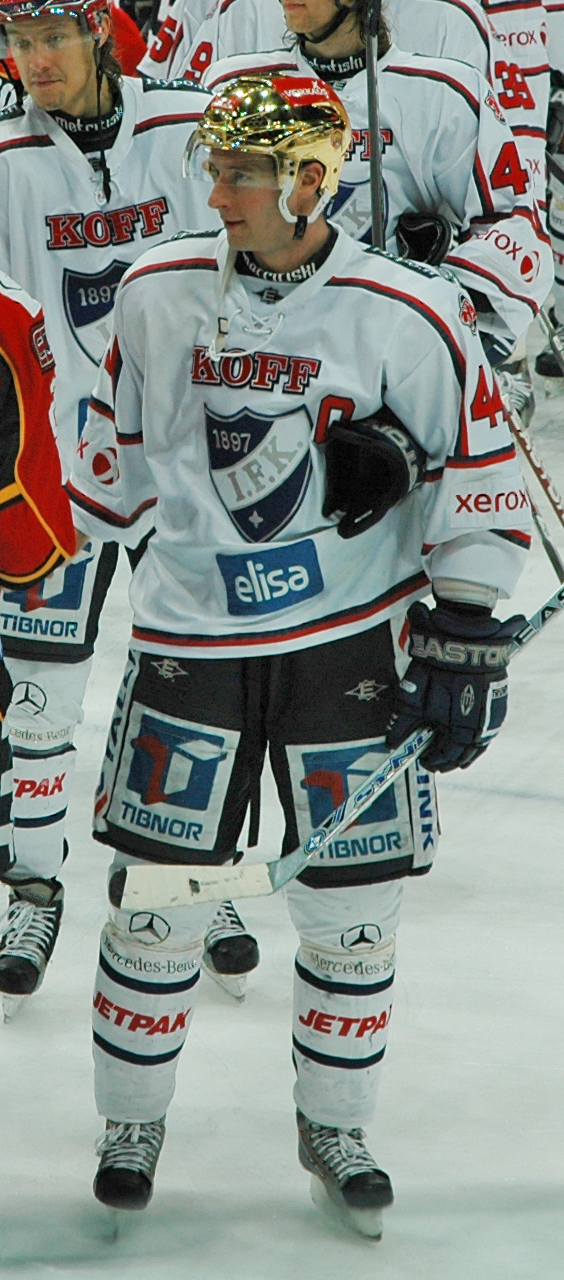 Photo: Tom Walker, taken on 27.12.2008 at Hartwall Areena, Helsinki, during Jokerit - HIFK game.